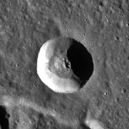 Focas crater, on the far side of the moon. Mosaic of LRO WAC images.